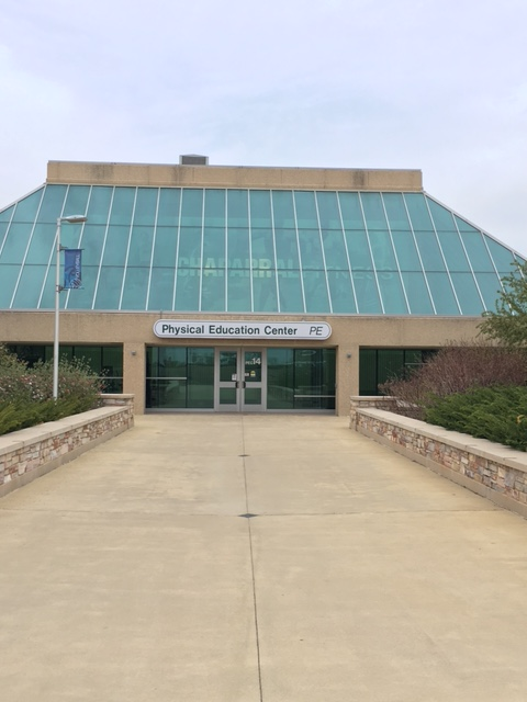 Photo of the PE building at COD